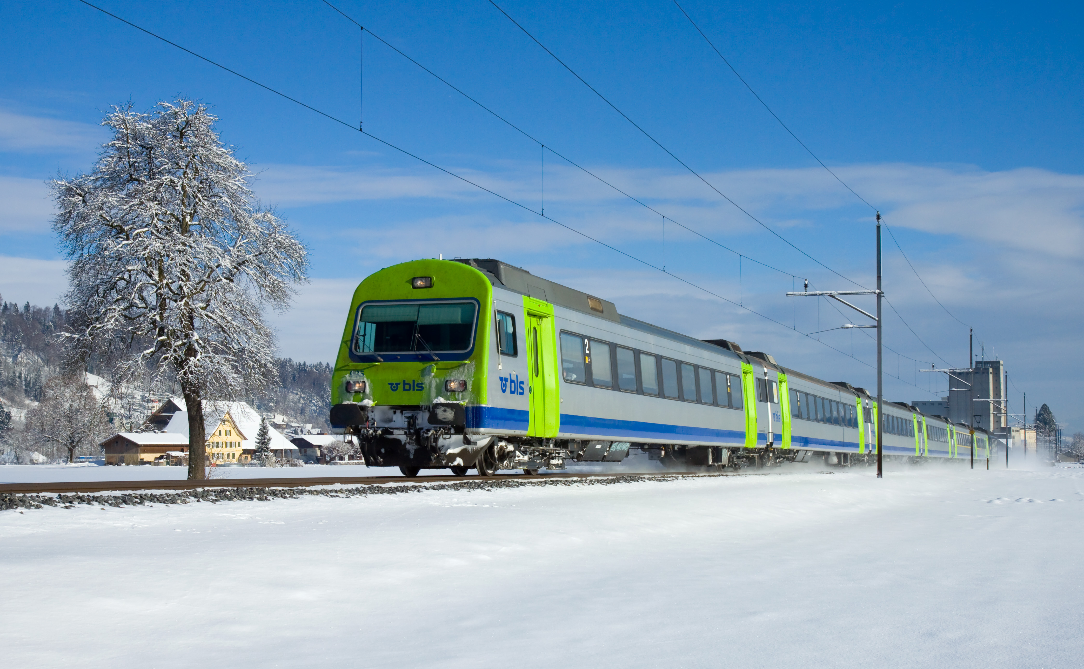 BLS EW III (mark III standard coaches) push-pull trainset hauled by a Re 465 locomotive on the RegioExpress service from Lucerne to Bern, just after Malters.